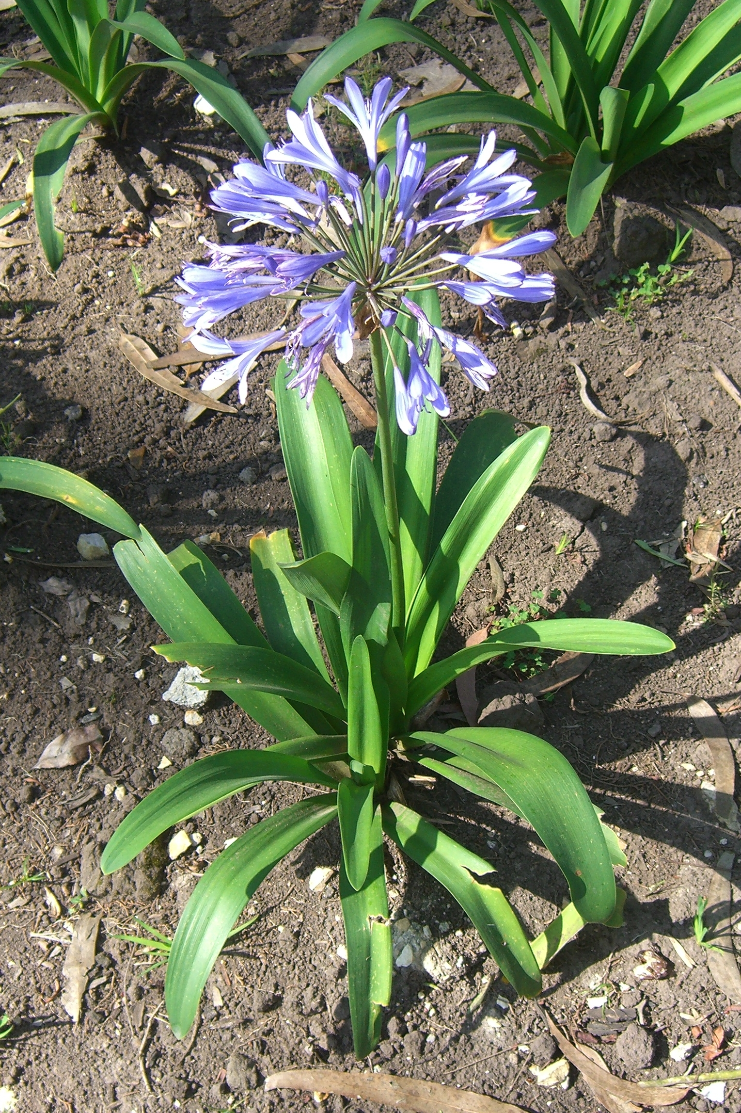 Please report references to .